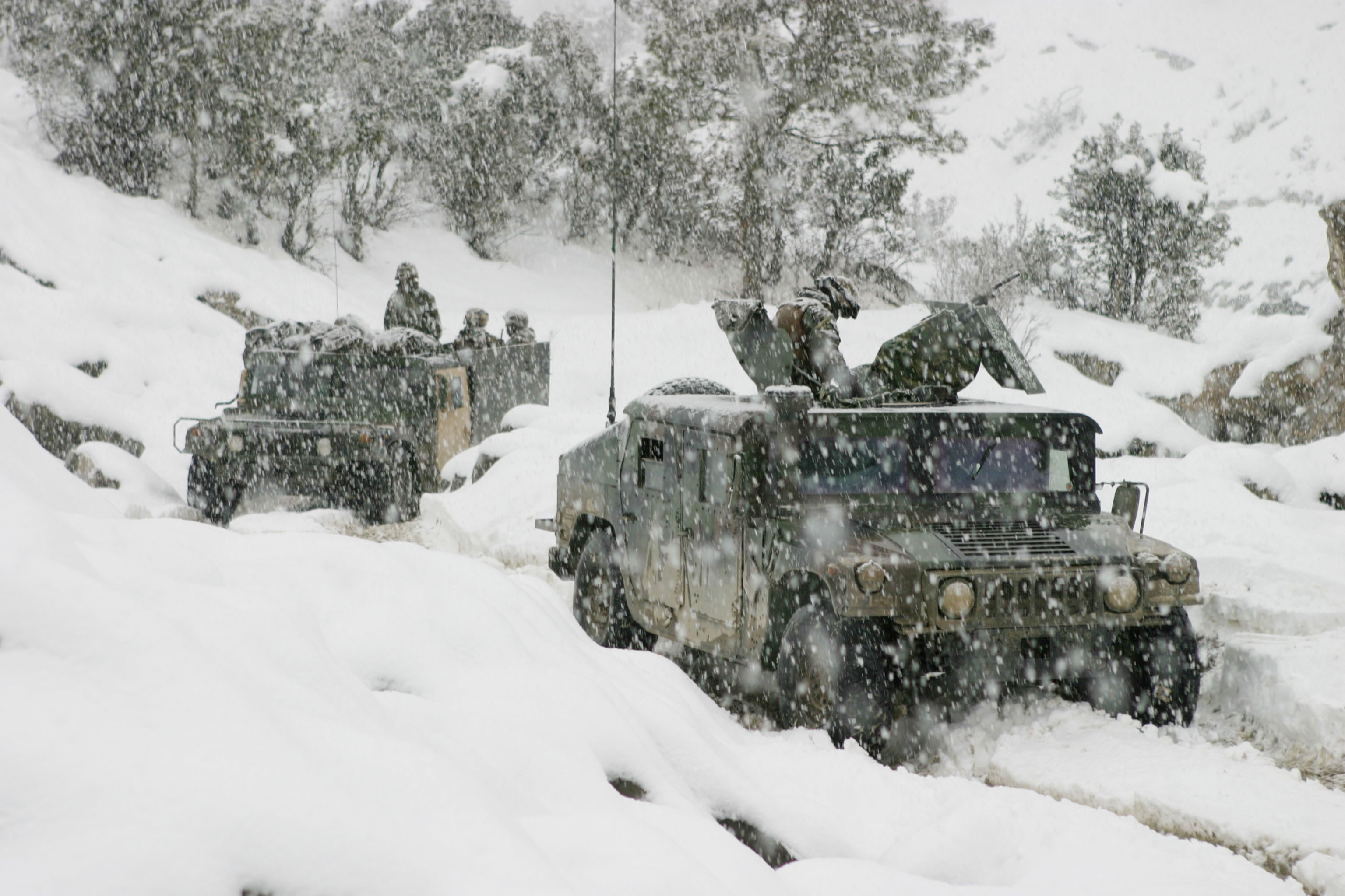 Khowst-Gardez Pass, Afghanistan (Dec. 30, 2004) - Marines assigned to Weapons Company, 3rd Battalion, 3rd Marine Regiment, conduct a mounted patrol in the cold and snowy weather of the Khowst-Gardez Pass, Afghanistan. in order to disrupt any enemy activity. The 3rd Battalion, 3rd Marine Regiment is conducting security and stabilization operations in support of Operation Enduring Freedom.